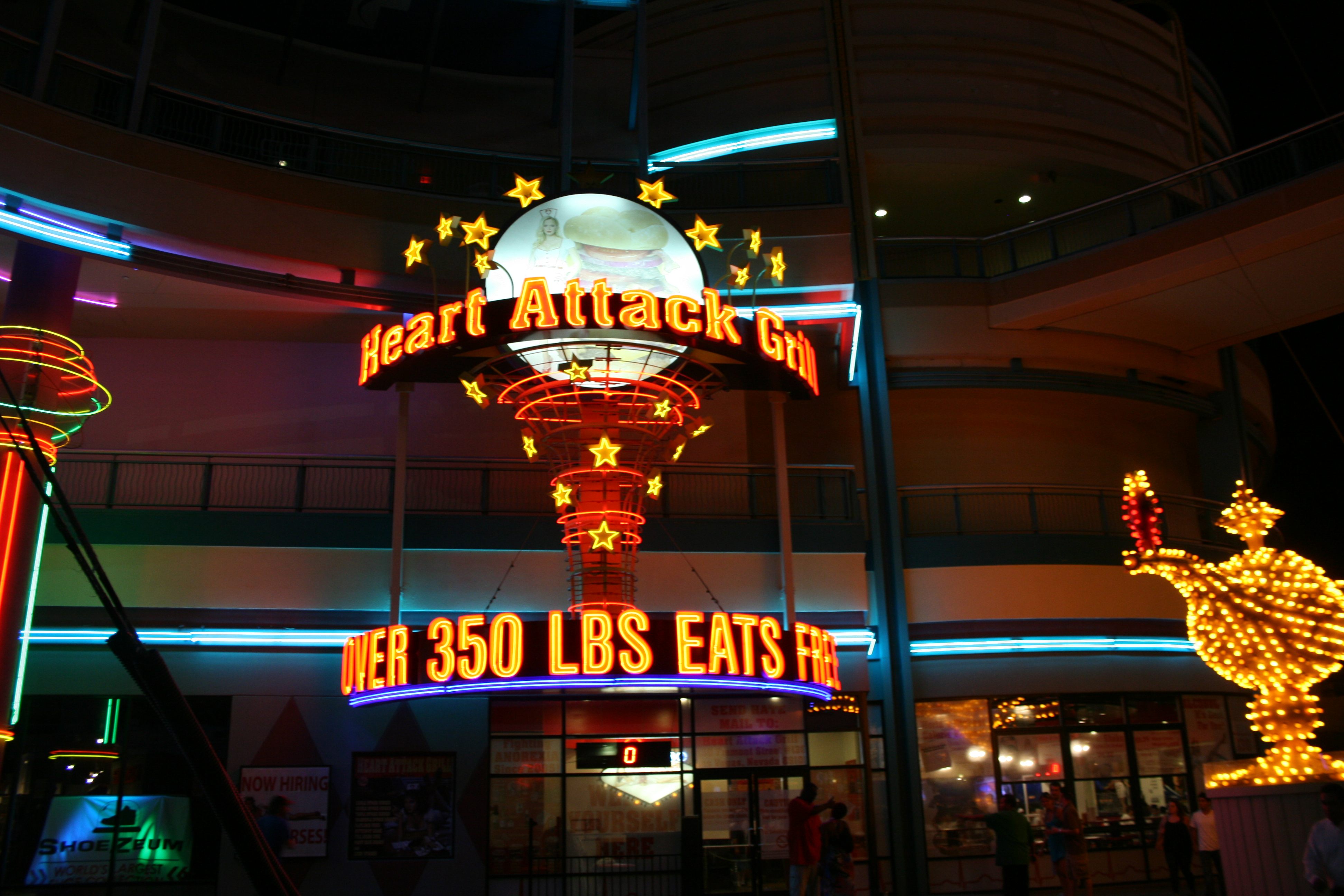 Entrance of the Heart Attack Grill in Las Vegas, Arizona, USA. The architectural work depicted in this photograph may be covered under United States copyright law (17 USC 120(a)), which states that architectural works completed after December 1, 1990 are protected. However, architectural copyright in the United States does not include the right to prevent the making, distributing, or public display of pictures, paintings, photographs, or other pictorial representations of the work. See COM:CRT/United States#Freedom of panorama for more information. This law only applies to architectural works (such as buildings or other structures) and not other forms of 3D or 2D artwork such as sculptures, paintings, or posters. Images of these artworks taken in the US must be deleted unless they are in the public domain, or their presence is incidental.